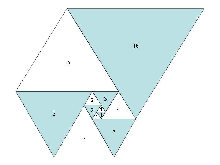 Spiral of triangles based on Padovan sequence. Created by User:Gandalf61 using Powerpoint.